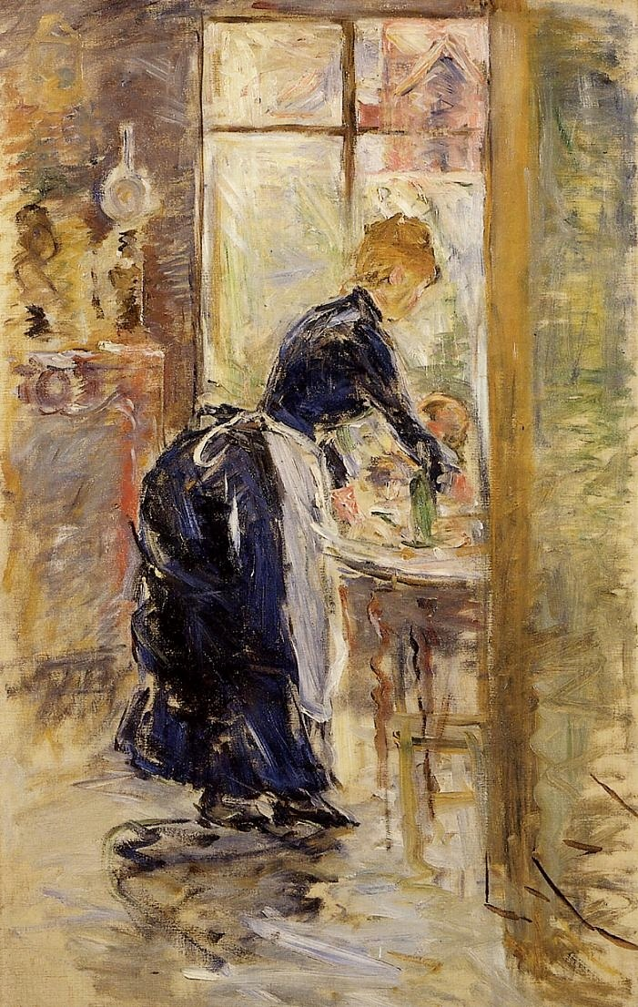 The little maid servant